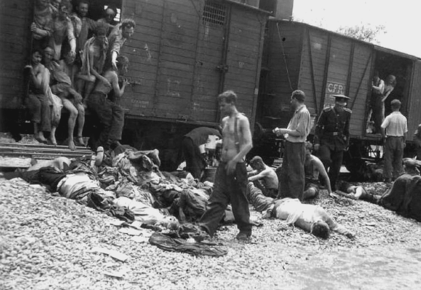 Death train from Iaşi